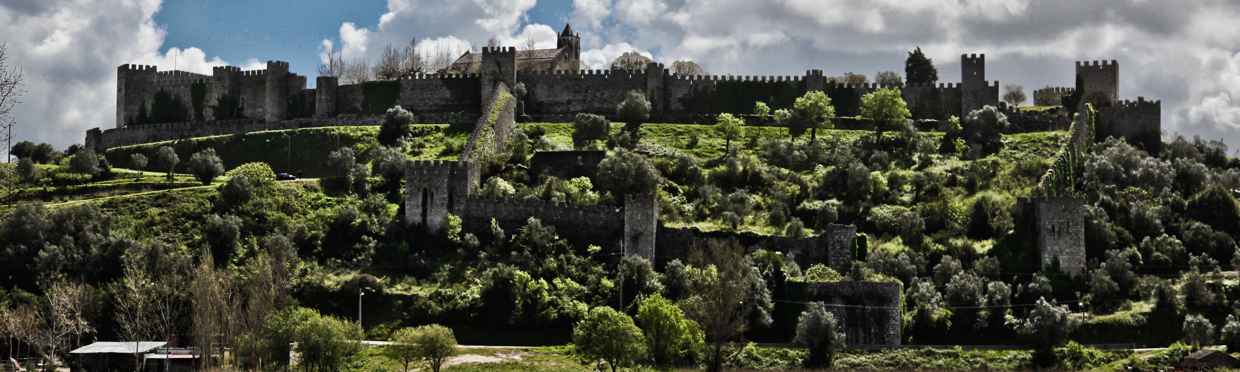 The fortress of Montemor-o-Velho